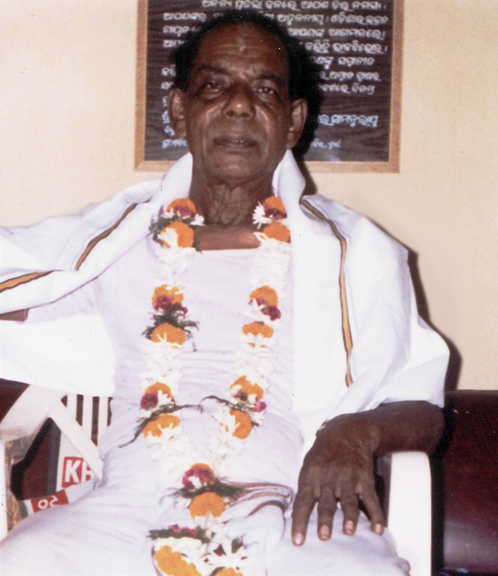 Bhikari Bal was an Odia-language vocalist from Odisha, India.ଓଡ଼ିଆ: ଭିକାରୀ ବଳ ଜଣେ ଓଡ଼ିଆ କଣ୍ଠସଙ୍ଗୀତ ଶିଳ୍ପୀ ଓ ସଙ୍ଗୀତ ନିର୍ଦ୍ଦେଶକ ।